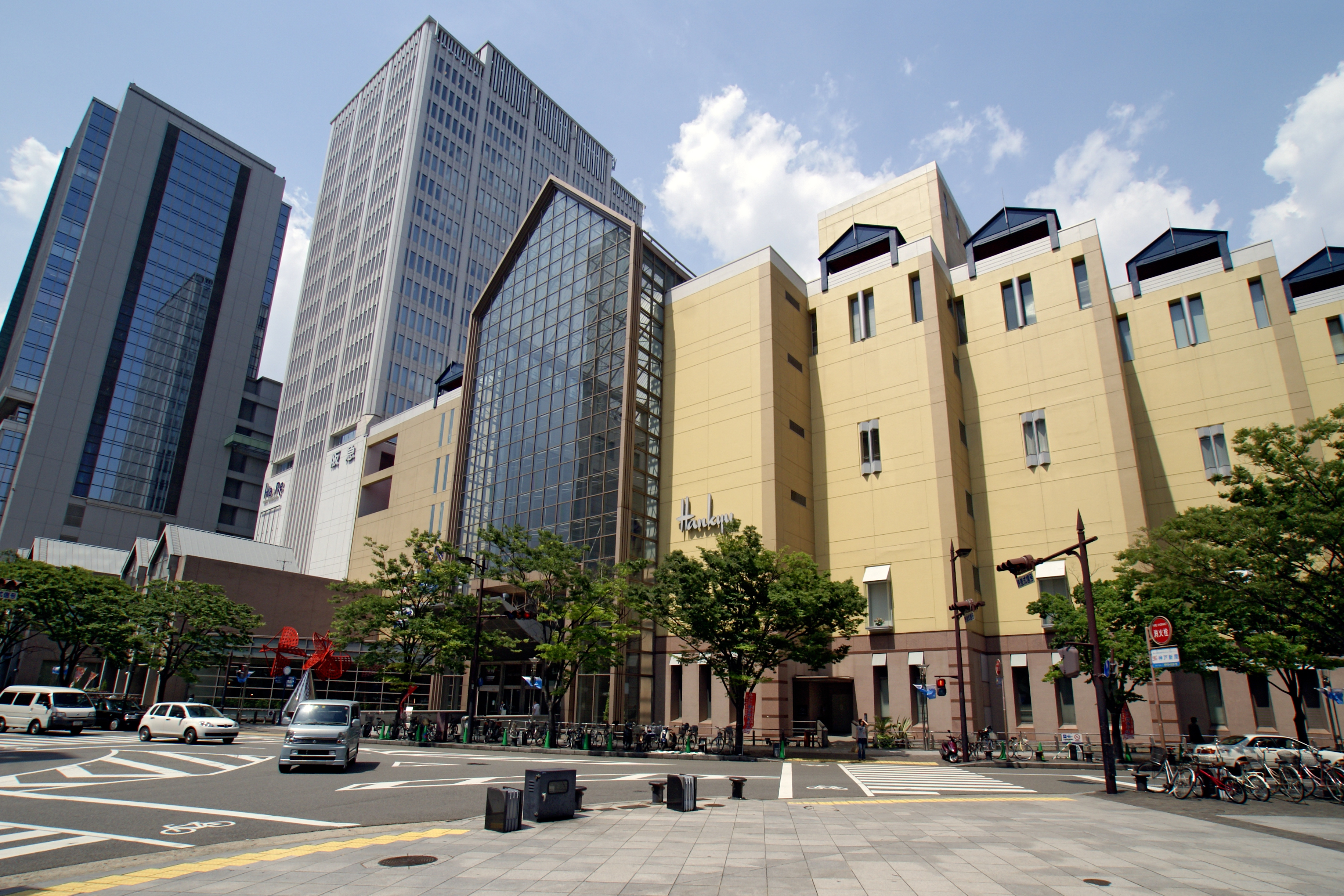 Hankyu Department Stores Kobe store in Kobe, Hyogo prefecture, Japan